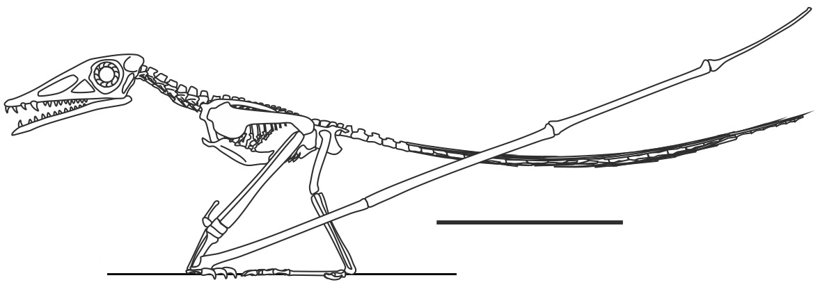 Skeletal restoration of the Early Jurassic campylognathoidid Campylognathoides liasicus.